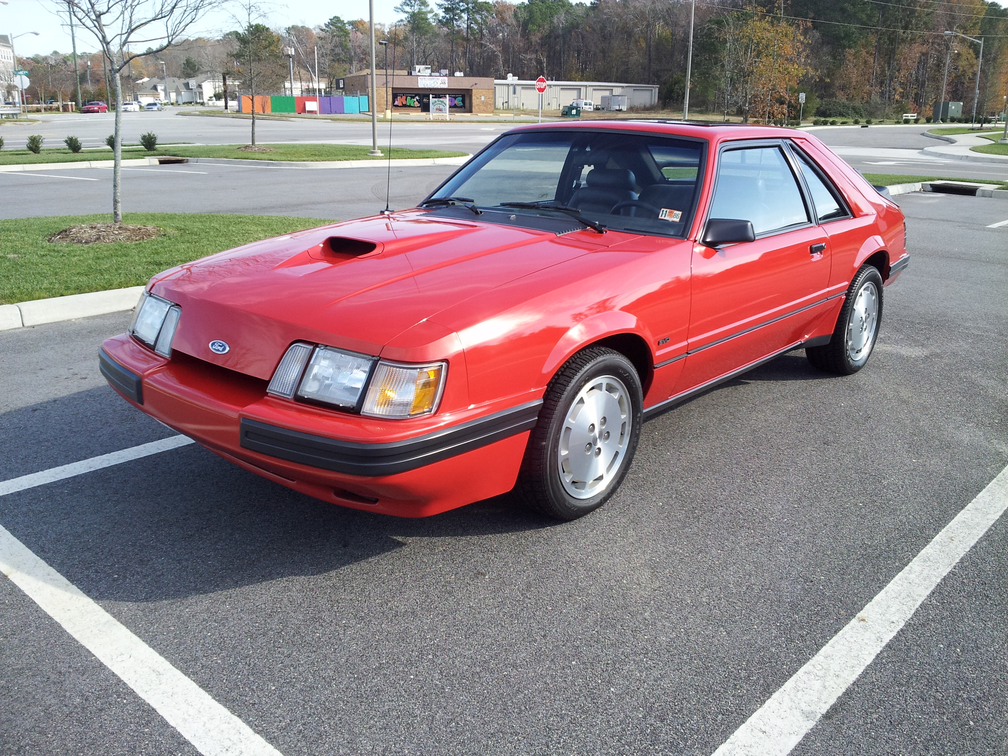 1986 Mustang SVO